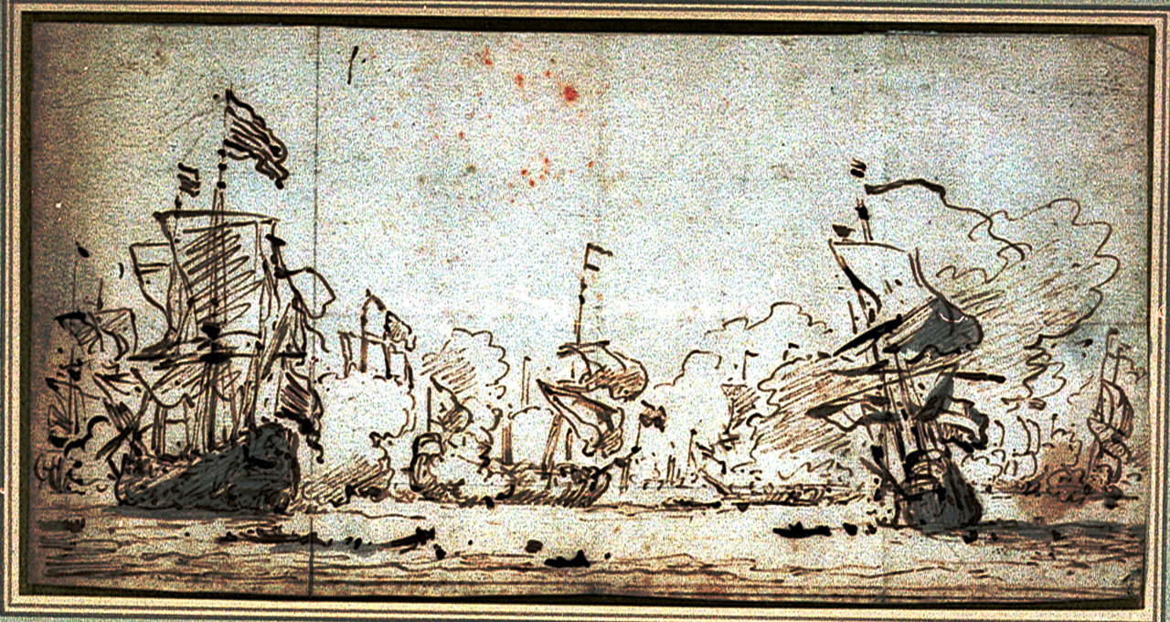 The battle of the Texel (Kijkdum) 11/21 August 1673 The battle of the Texel (known in Dutch history as the battle of Kijkduin) was the last major engagement of the third Anglo-Dutch War. It was a final (and unsuccessful) attempt by the Allies to dislodge the Dutch fleet in advance of a planned invasion of Holland. By the time both fleets retreated, exhausted, the battle had cost the lives of around 3,000 men. Peace ensued earlier the following year. In this drawing, a badly damaged Royal Navy ship, the Royal Prince, lies in the centre middle-distance, flanked by two Dutch ships. It is a compositional study for an oil painting of which there are several extant versions of various sizes, including three in the collection of the NMM (see BHC0314, BHC0316 and BHC0309) and a fourth in the Rijksmuseum in Amsterdam (SK-A-2392). The Battle of the Texel (Kijkduin), 11/21 August 1673